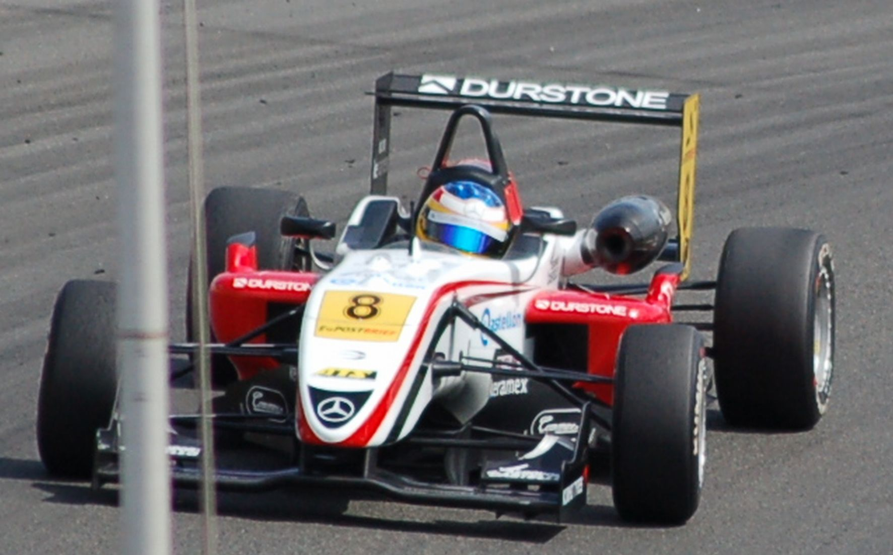 Roberto Merhi at Zandvoort 2011